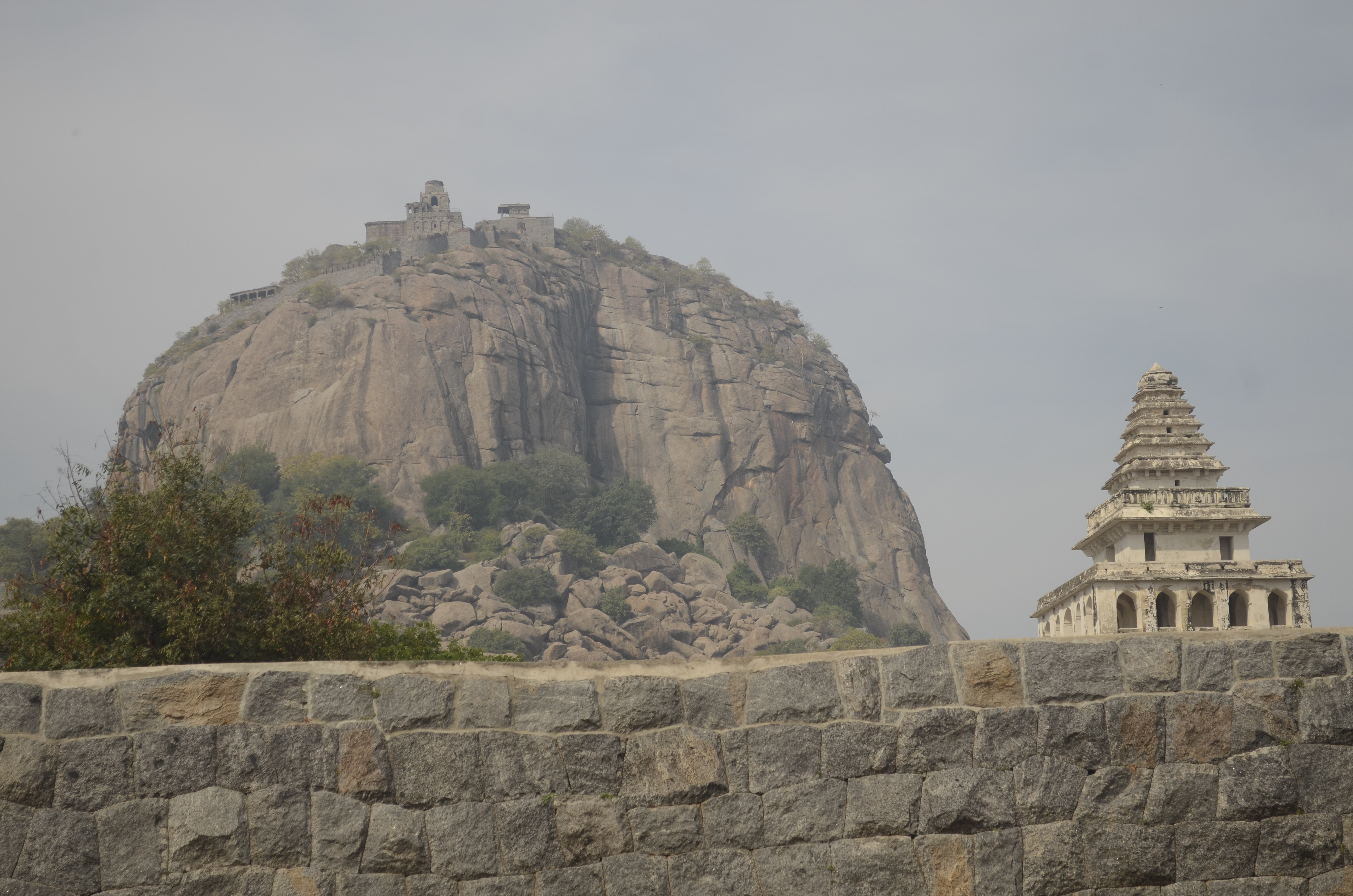 Gingee fort1